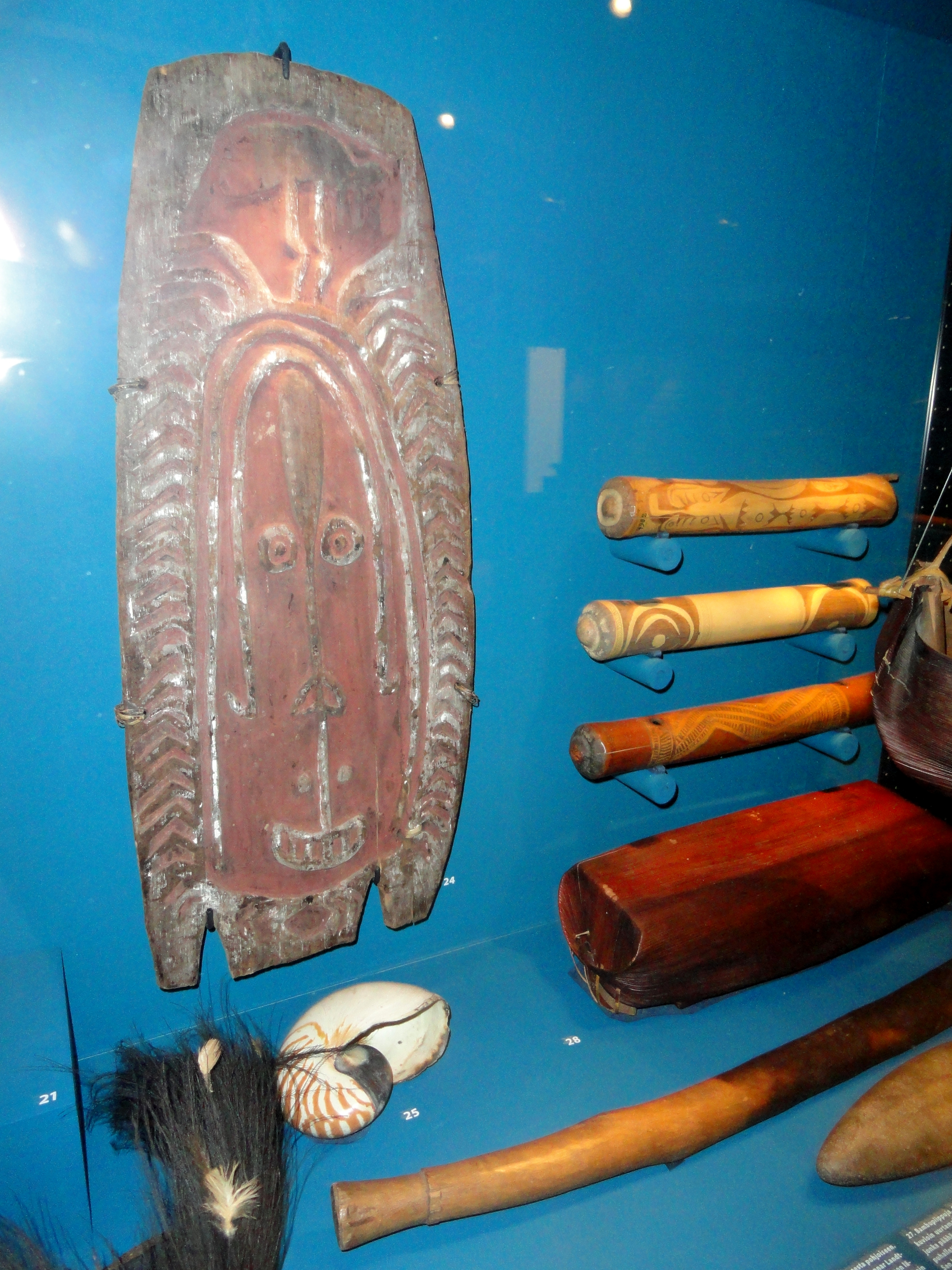 Items from Papua New Guinea. Exhibit from the Gunnar Landtman collection in the Museum of Cultures, Helsinki, Finland.